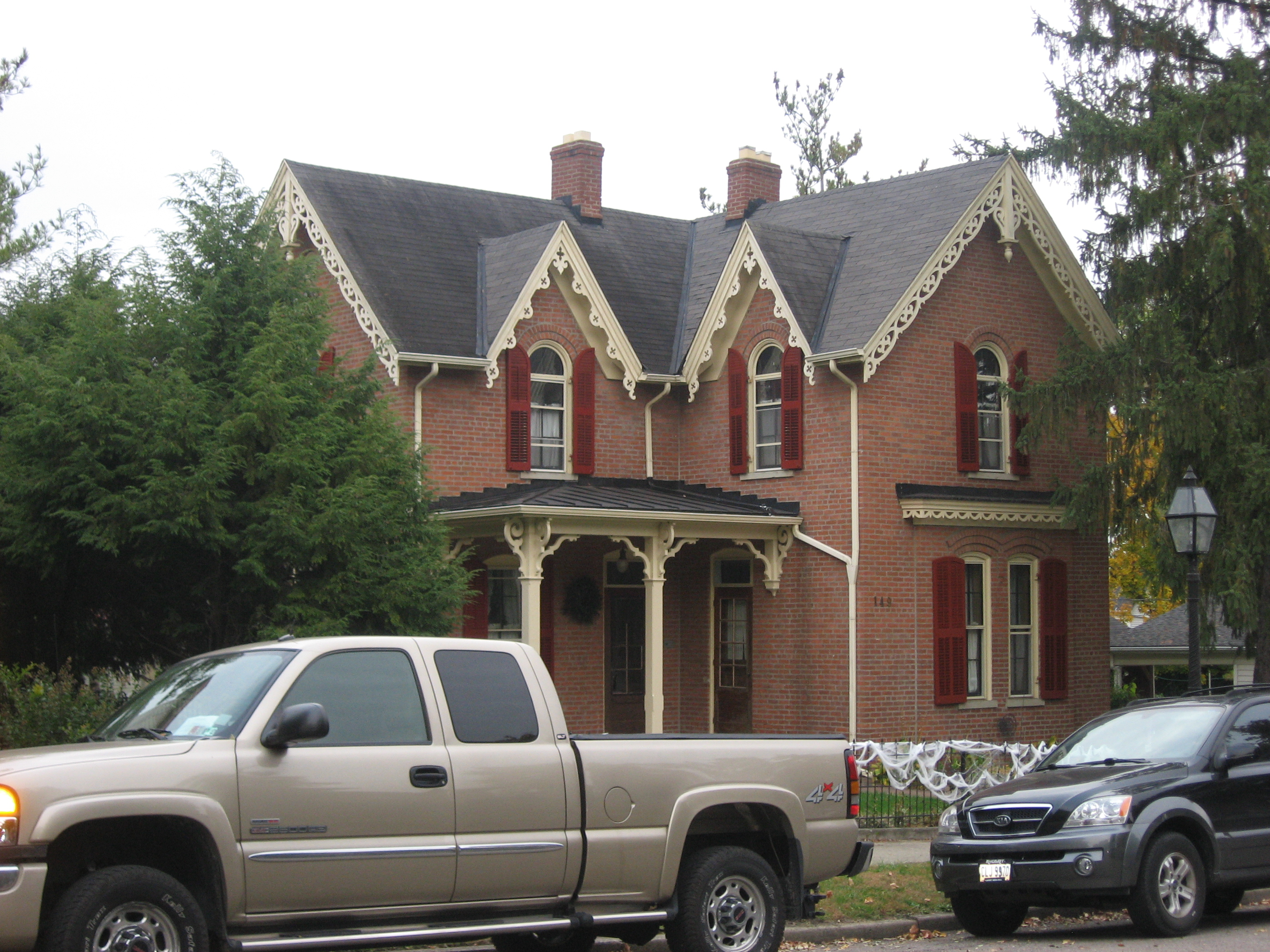 Front of the Morris House, located at 149 W. Union Street in Circleville, Ohio, United States. Built in 1865, the house is listed on the National Register of Historic Places.